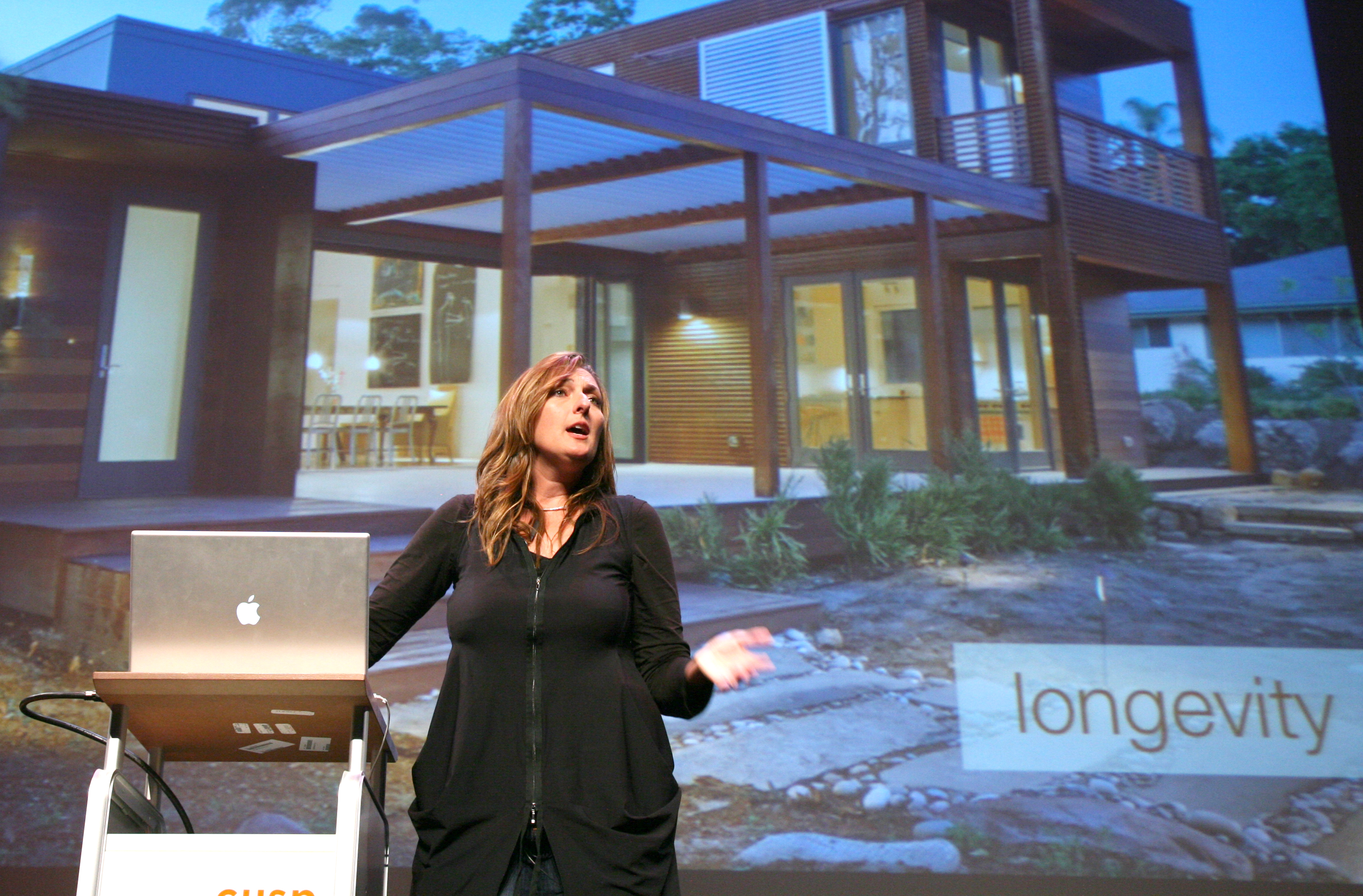 Michelle Kaufmann presenting at the Cusp Conference, Chicago IL September 2010